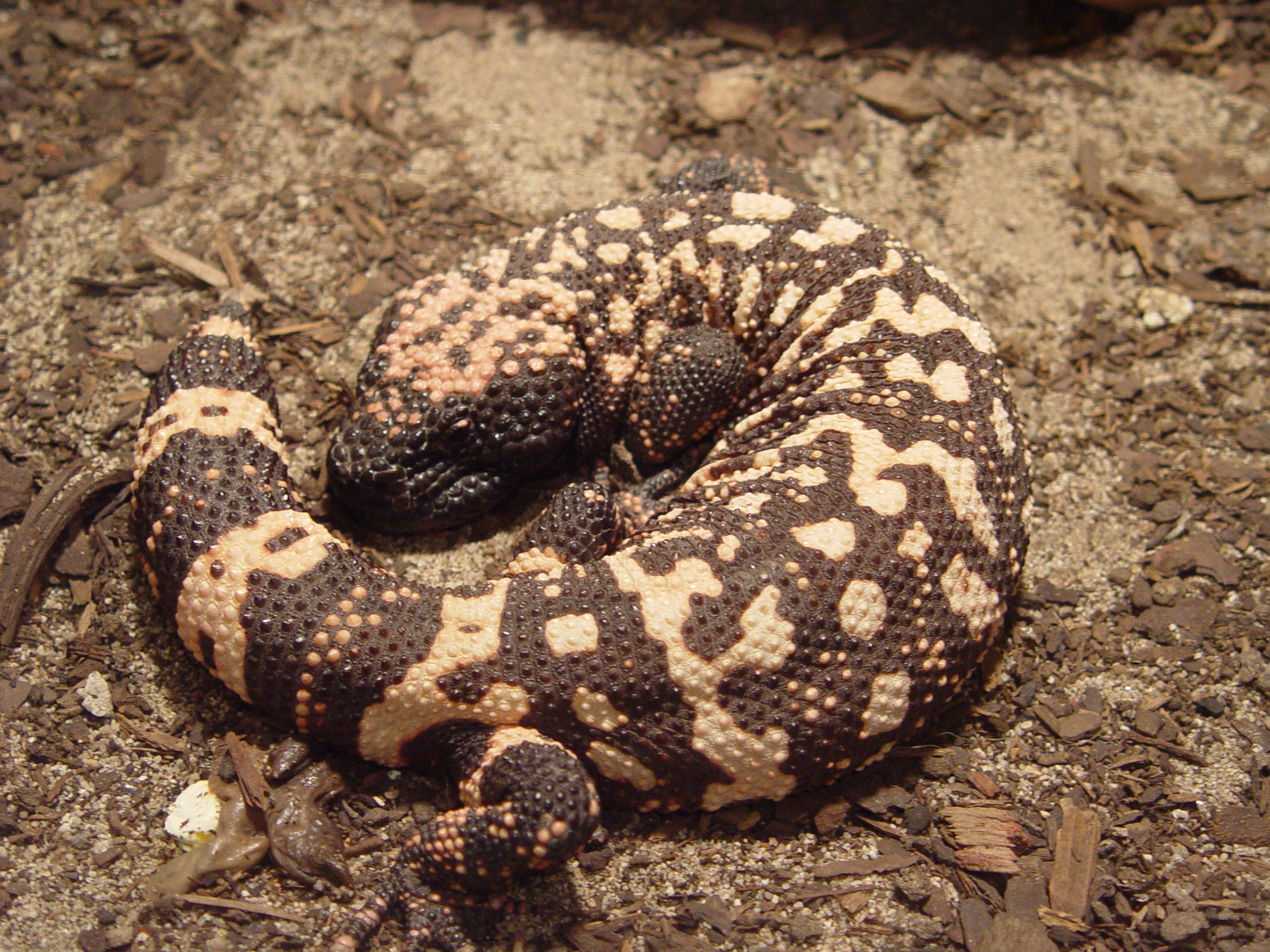 Gila monster (Heloderma suspectum) at the American International Rattlesnake Museum